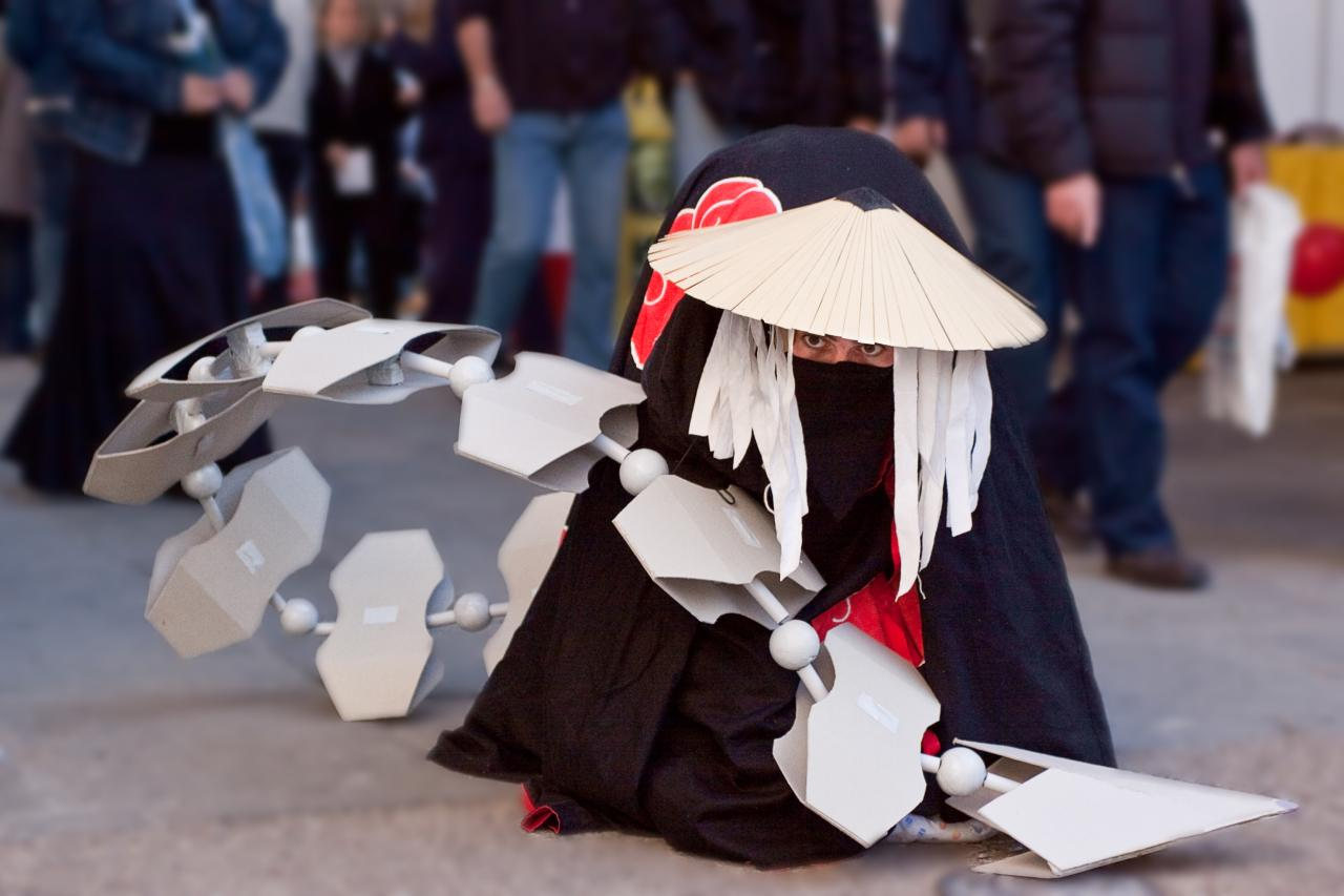 Sasori's puppet armor, Hiruko (cosplay)